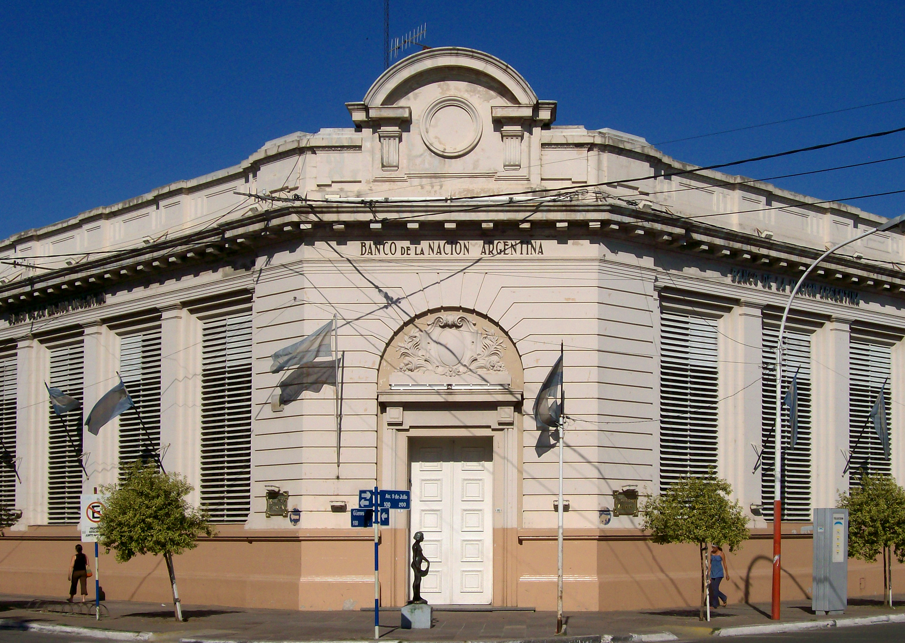 Banco Nación (Argentina's National Bank) branch in Resistencia, Chaco, Argentina. This was the first branch bank in Chaco Province. Currently in use as a branch of the Banco Hipotecario (Mortgage Bank).